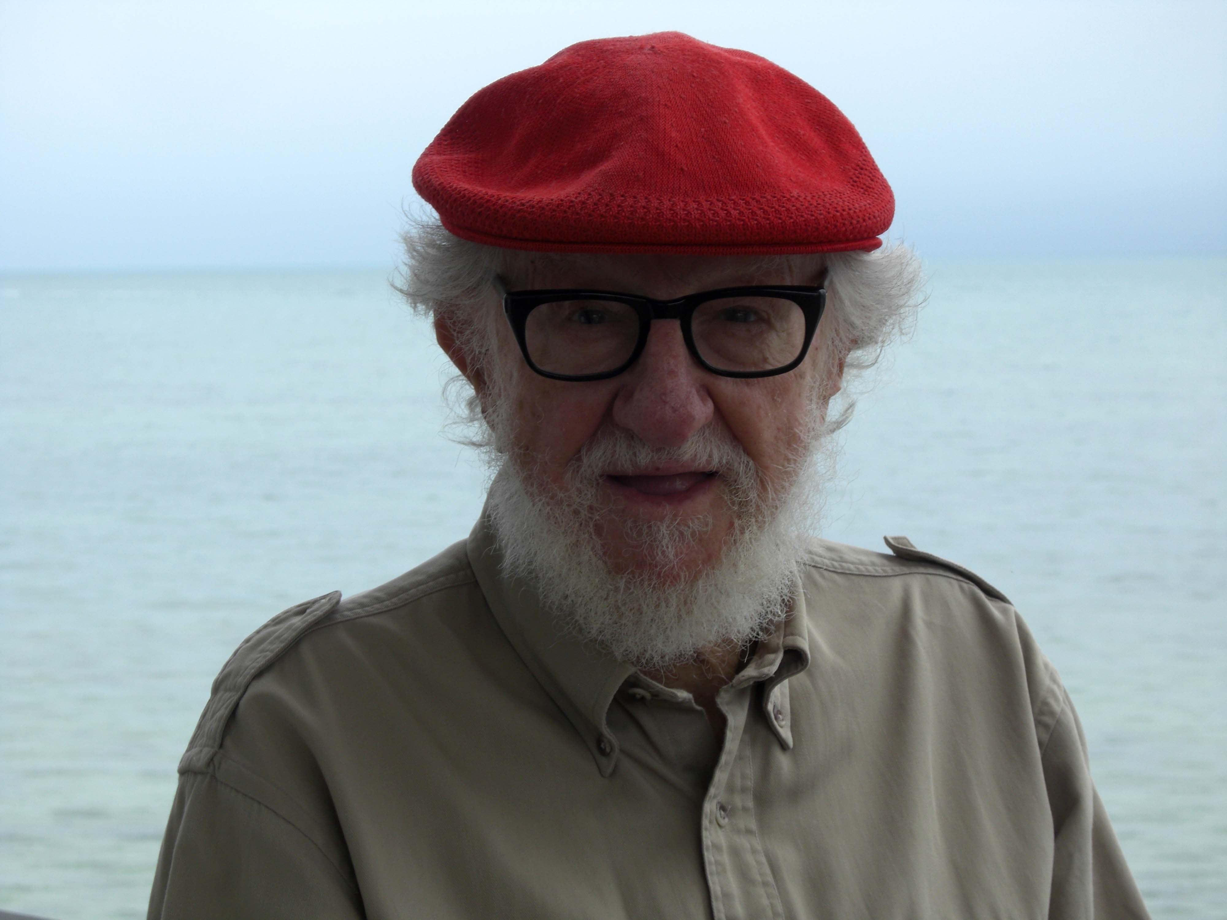 Reese in red beret